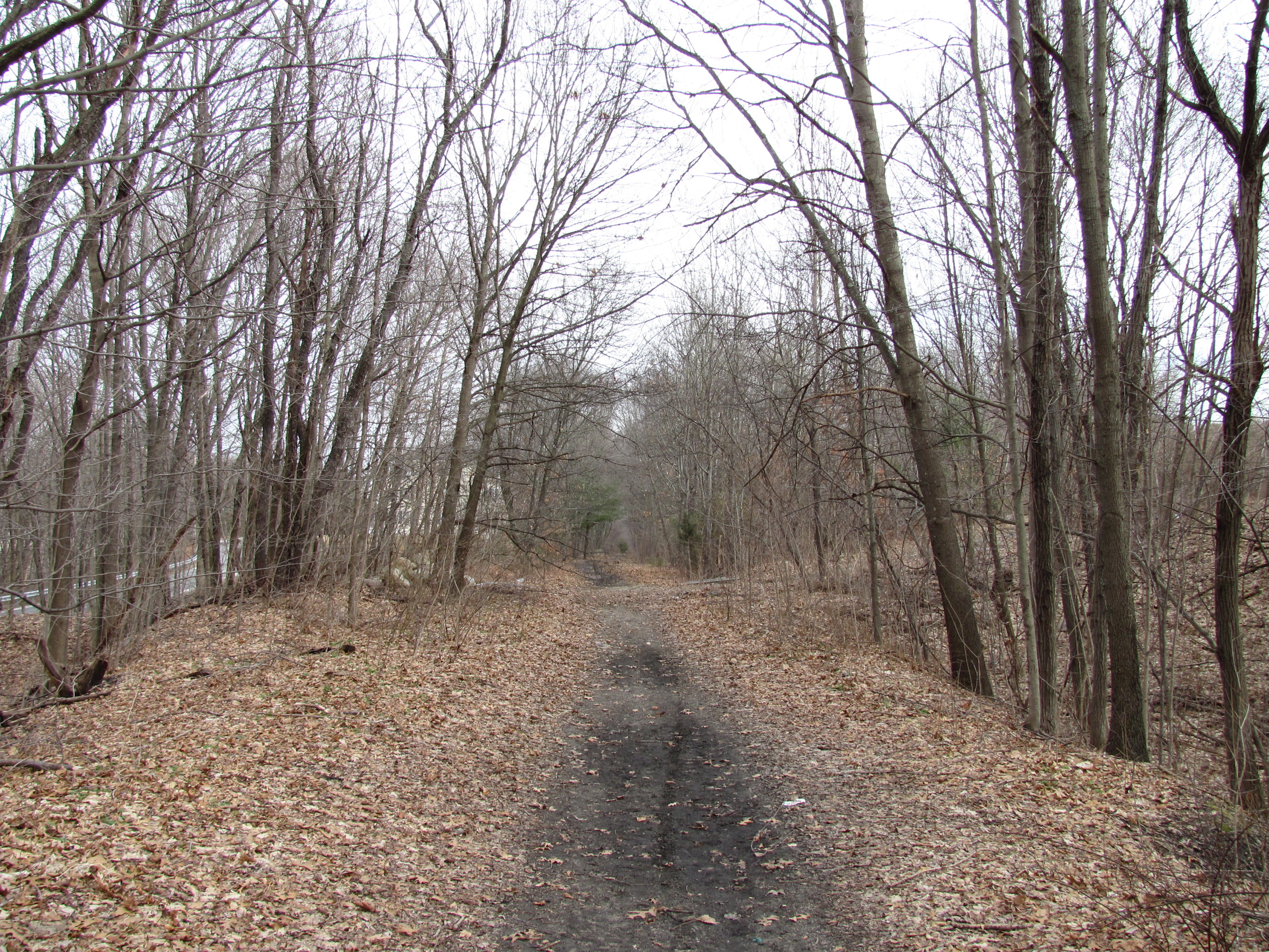 Southern New England Trunkline Trail, Millville Massachusetts